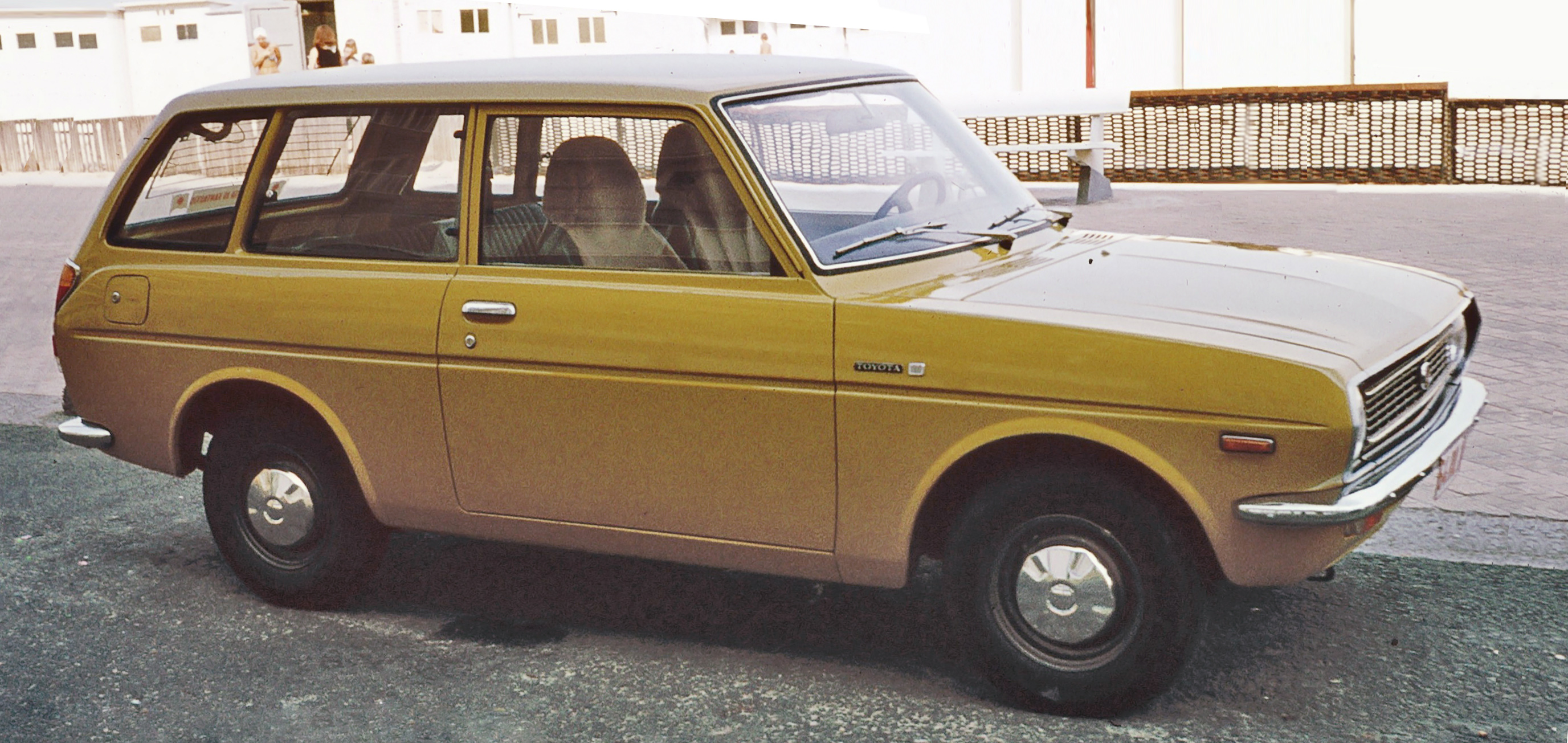 Small Toyota station wagon in Tenerife